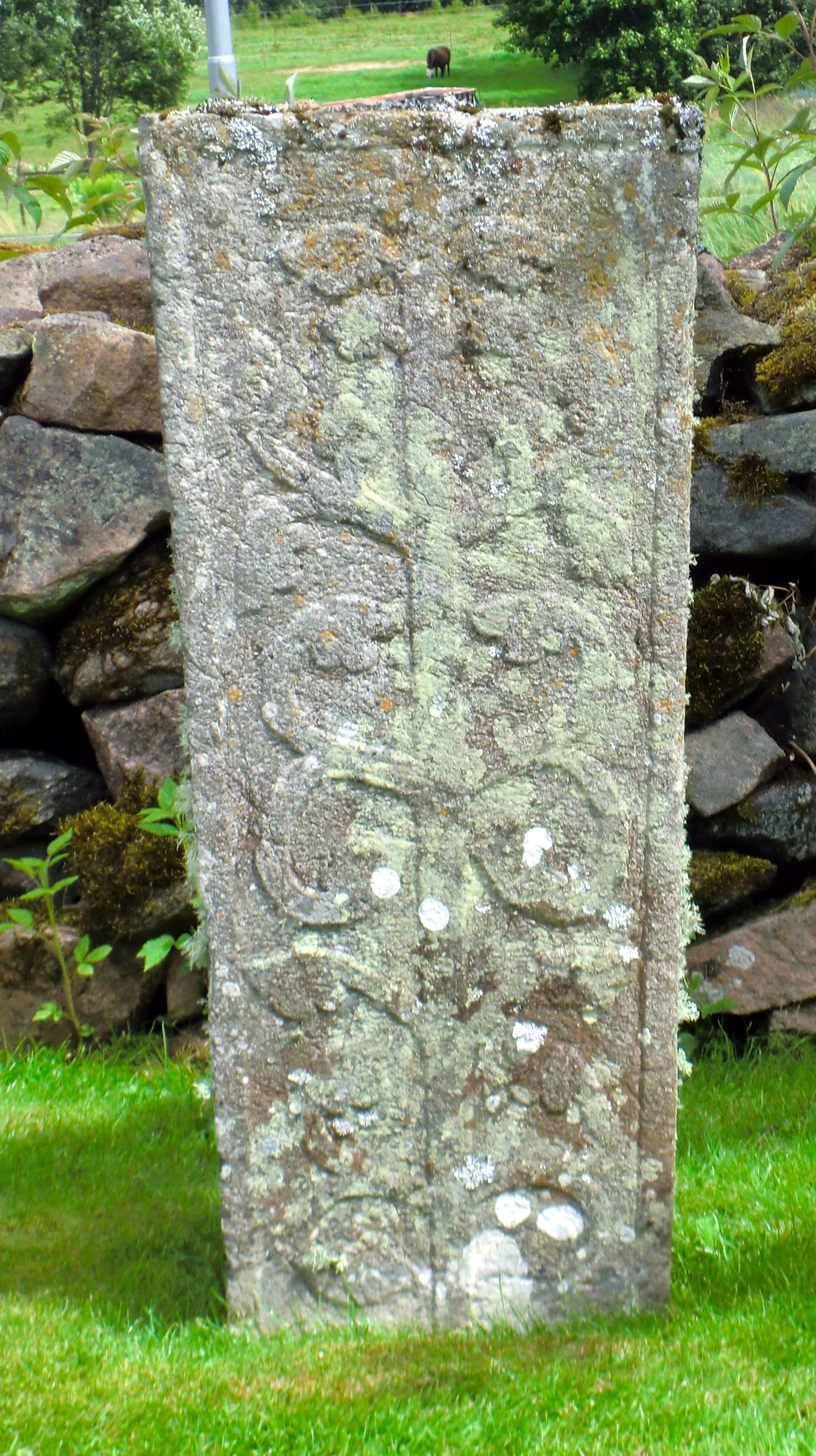 Tree of life slab from Vist parish church, Ulricehamn, Sweden